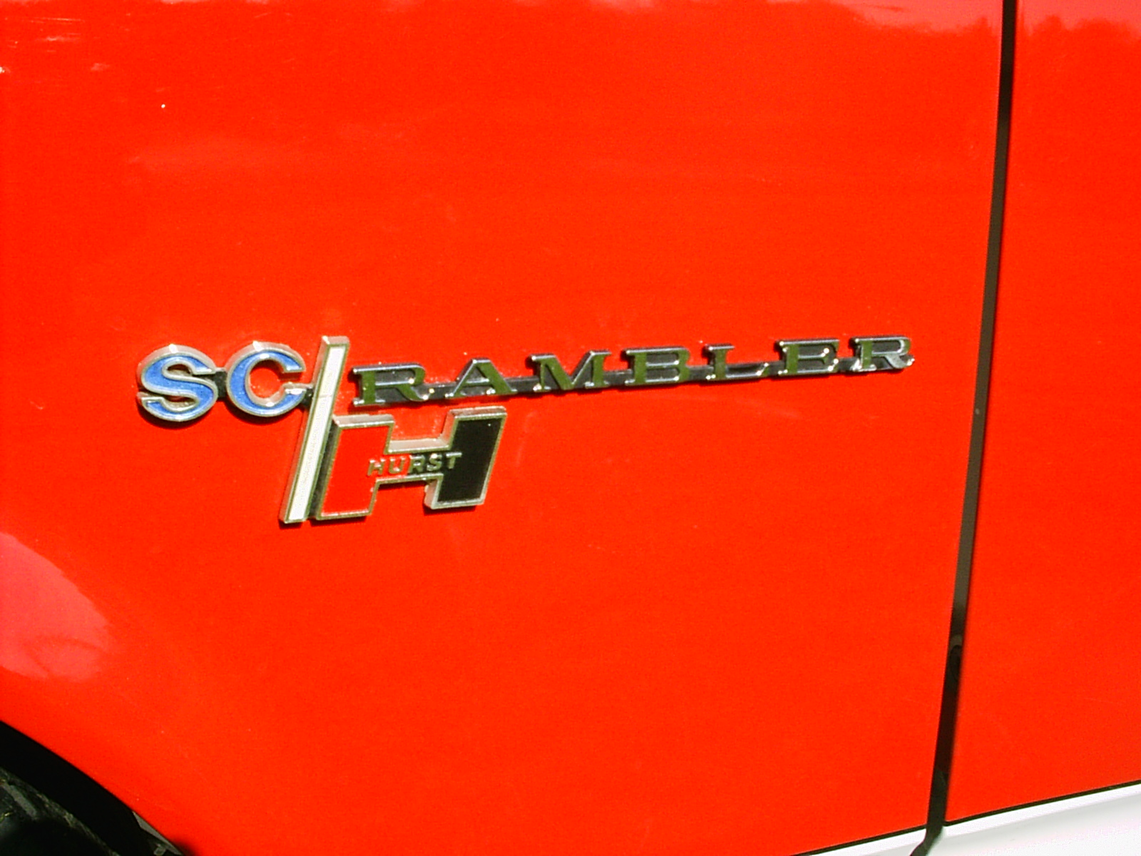 Detail of the SC/Rambler emblem of the front fender of this American Motors (AMC) two-door compact muscle car produced in collaboration with Hurst Performance Inc. This car has the "A" paint scheme. Standard was a 390 cubic inch displacement (6.4 L) V8 engine producing 315 hp (235 kW).